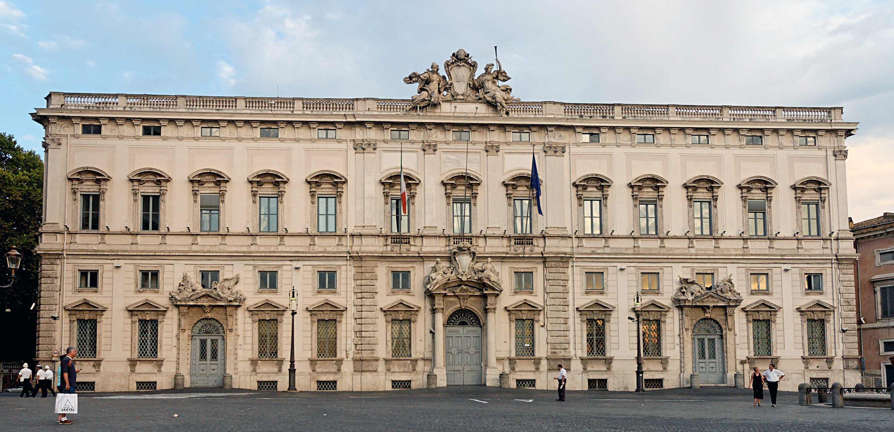 Palazzo della Consulta, seat of the Italian Constitutional Court, designed by the florentine architect Ferdinando Fuga (1732). Piazza del Quirinale, Rome.